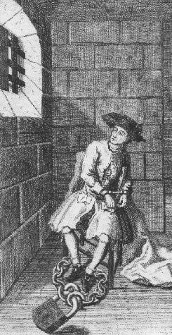 Thursday 17 September 1724: Yesterday morning the Keepers of Newgate, going into the Condemn’d-Hold to Sheppard, found two files, a chissel, and a hammer, hid in the bottom of a matter chair, with which he had begun to file his irons, who when he perceiv’d his last effort to escape thus discovered and frustrated, his wicked and obdurate heart began to relent, and he shed abundance of tears; he was carried up to an apartment call’d the Castle, in the body of the Goal, a place of equal, if not superiour strength to the Condemn’d-Hold, and there chain’d down to the floor. (The Daily Journal)